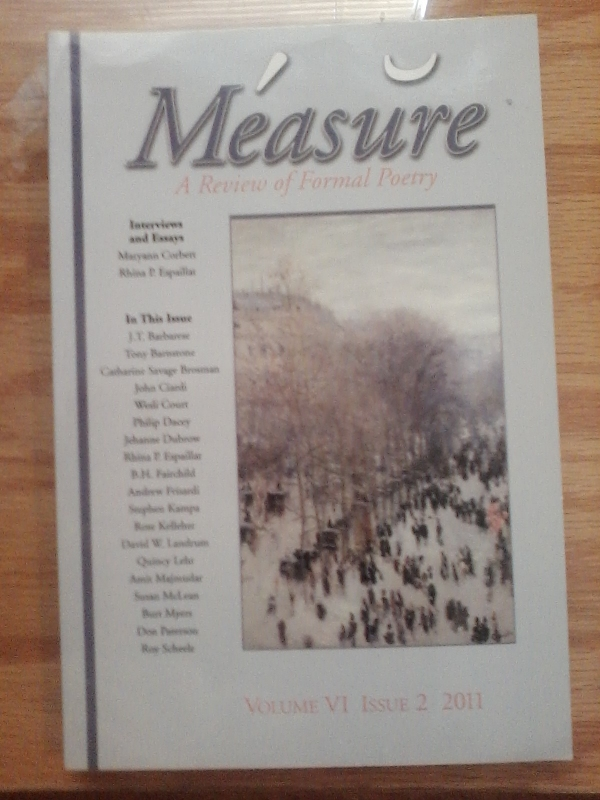 2011 issue of Measure: A Review of Formal Poetry